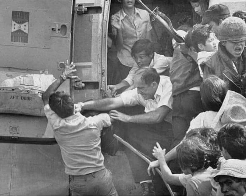 Nha Trang, April 1975